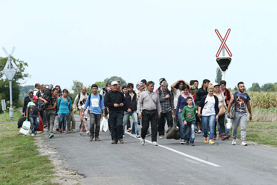 Migrants in Hungary near the Serbian border